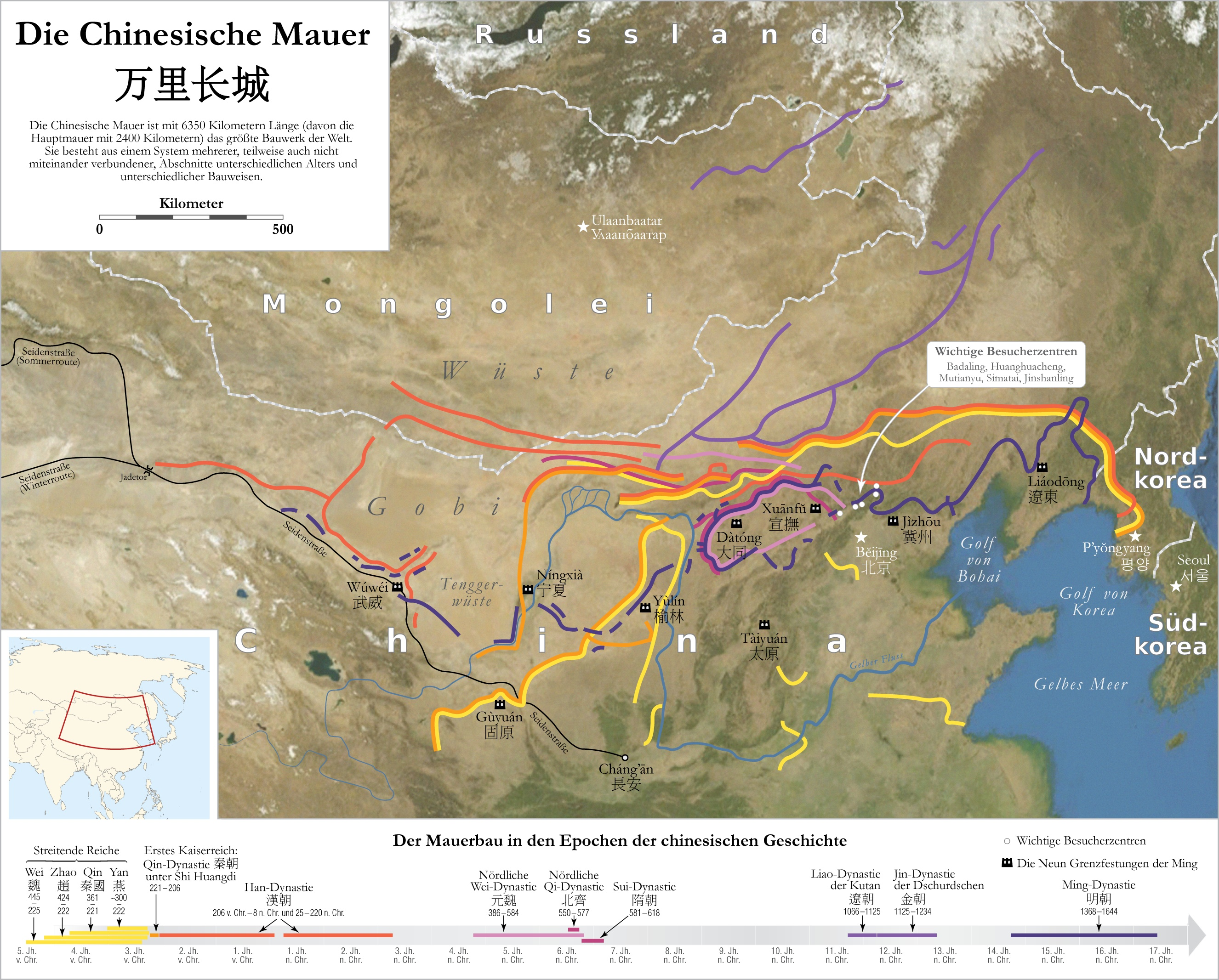 Map of the Great Wall of China